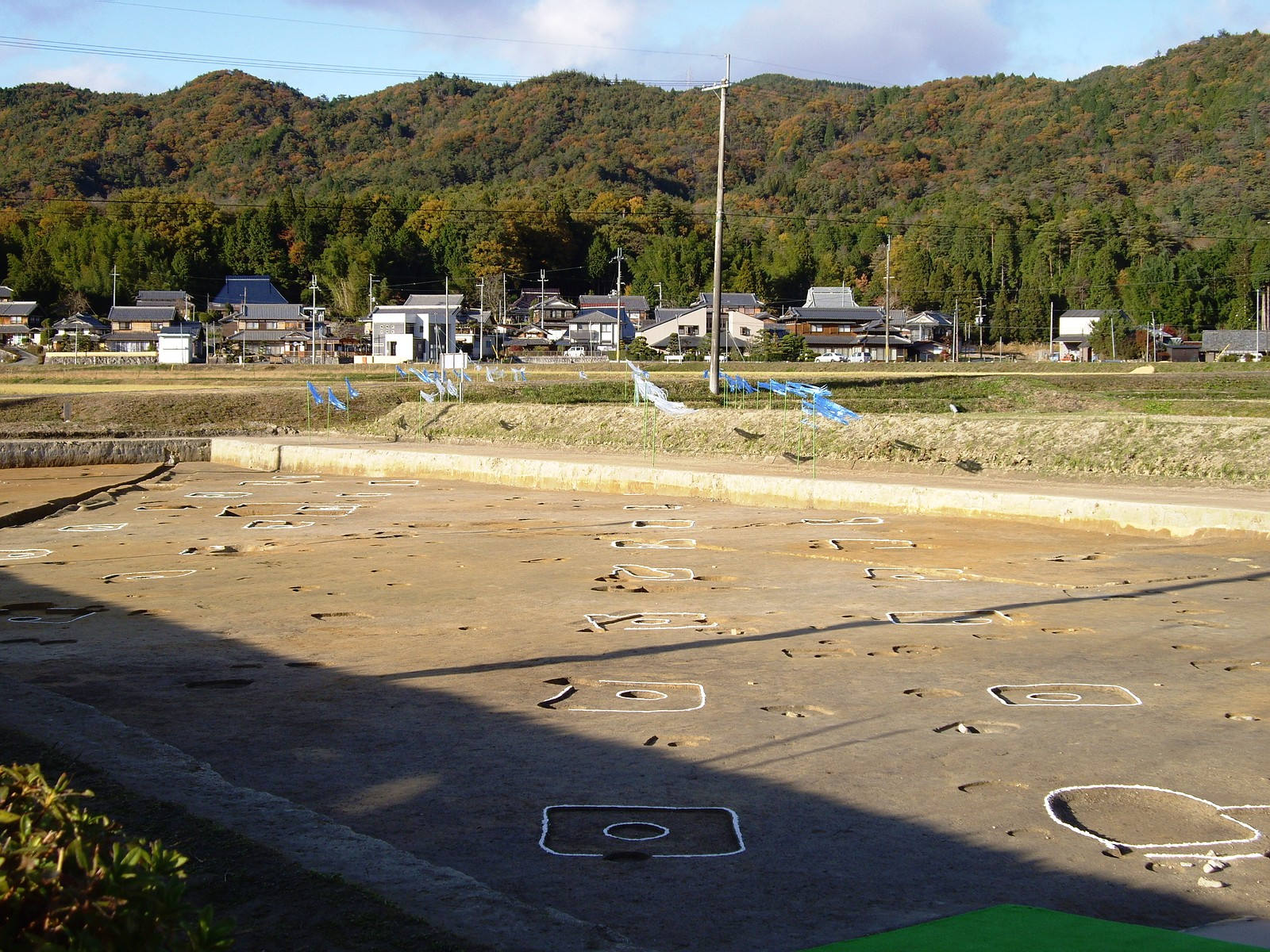 Miyamachi Ruins in Koka, Shiga Prefecture, Japan